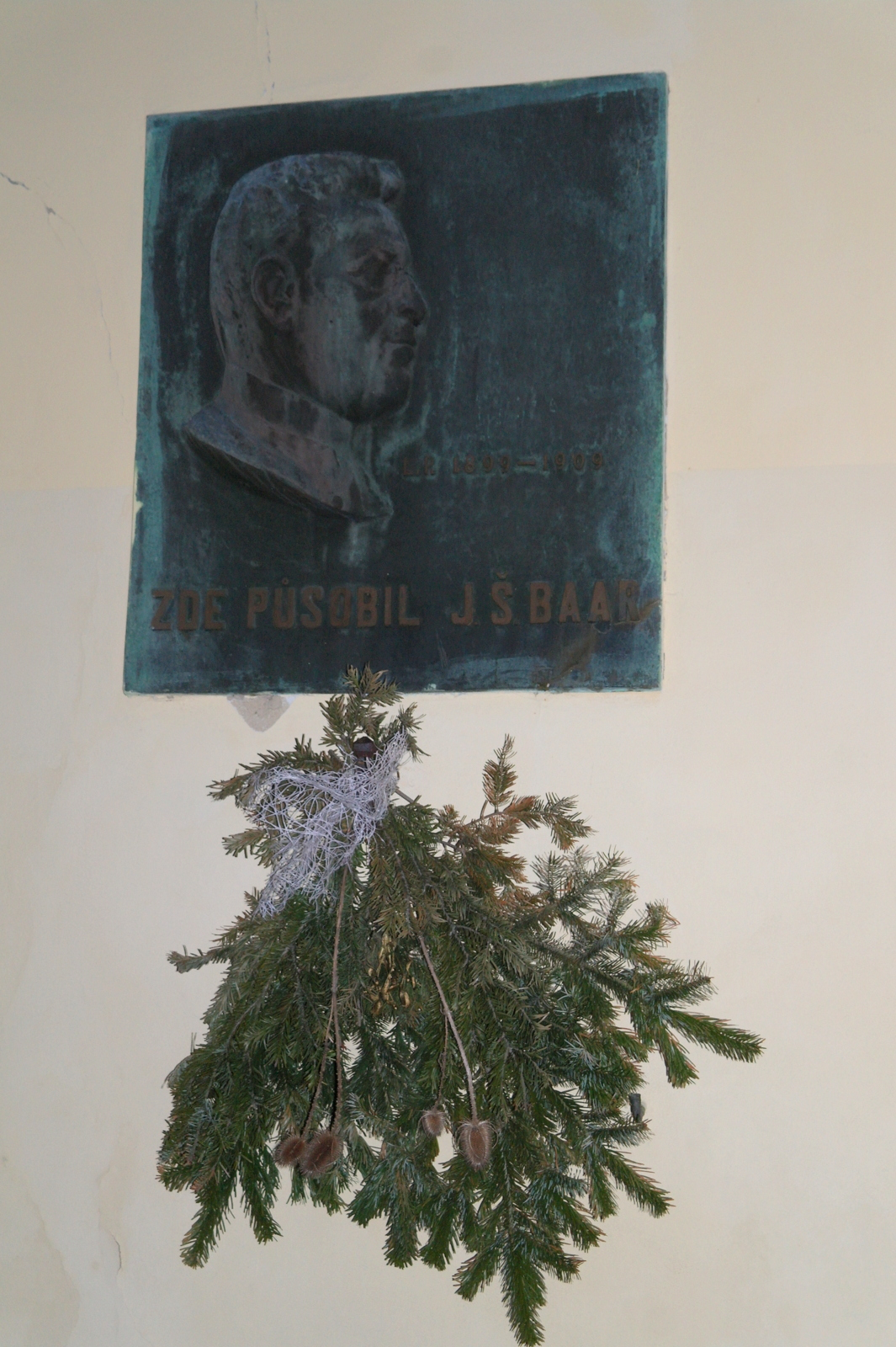 Church of Saint Lawrence, above the village, Klobuky, Kladno District. Memorial Plaque on the church wall, dedicated to the priest and writer J. Š. Baar, who worked here in the years 1899-1909.